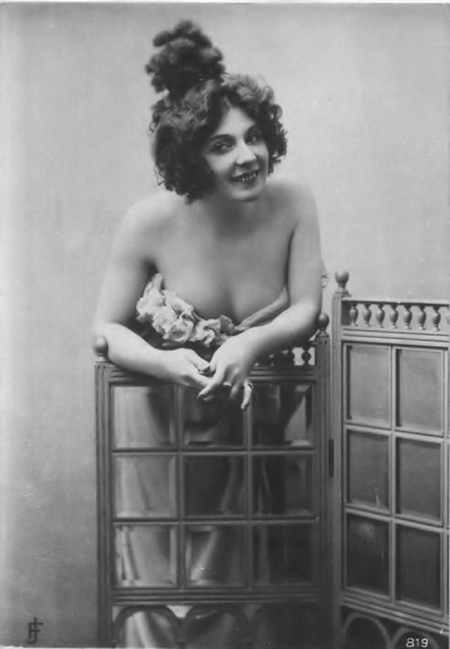 Amélie Diéterle is a French actress born in Strasbourg on February 20, 1871 and died in Cannes on January 20, 1941. She was legitimated in Paris in 1892 by Captain Louis Laurent, Knight of the Legion of Honor. Amélie Diéterle married in Vallauris on June 16th, 1930 with André Simon (1877-1965). Amélie Diéterle plays mainly at the Théâtre des Variétés in Paris during the Belle Époque. She inspires poets Léon Dierx and Stéphane Mallarmé. She is also the muse of the painters Auguste Renoir, Henri de Toulouse-Lautrec or Alfred Roll.